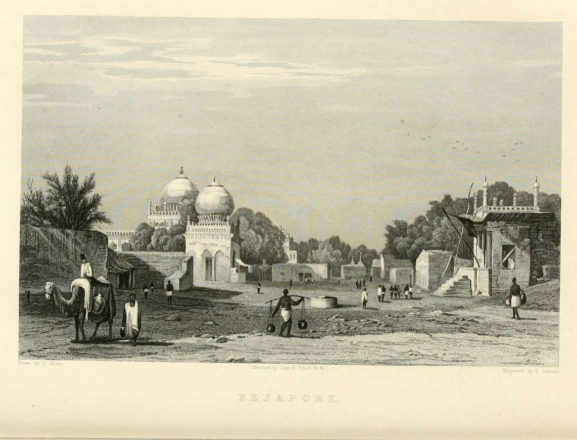 "Bejapore," from vol. 3 of 'The Indian Empire' by Robert Montgomery Martin, c.1860; also *"Mosque of Mustapha Khan, Bejapore"*; also *"Assar Mahal, Bejapore"*; also "*Singham Mahal, Torway"*; also *"Palace of the Seven Stories, Bejapore"*; also *"The Seven-storied Palace, Bejapore"*